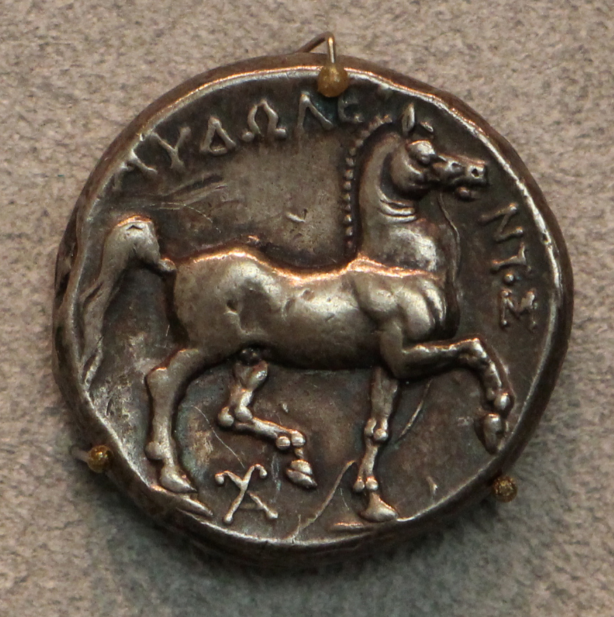 Ancient Greek coins in the Altes Museum Berlin